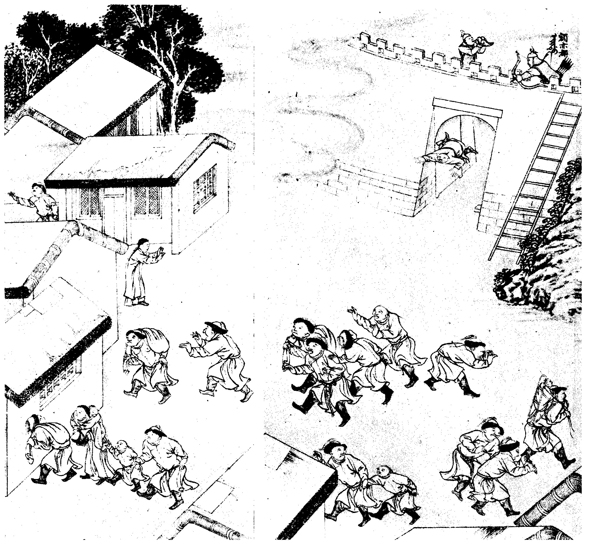 額亦都克巴爾達